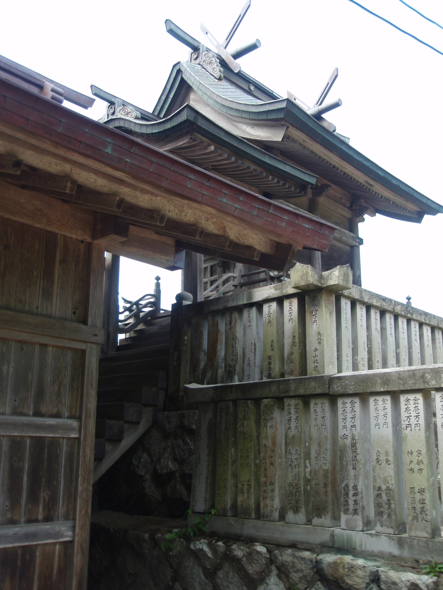 The honden (main building) of Hakuto Jinja (Hakuto means in Japanese "White Rabbit")